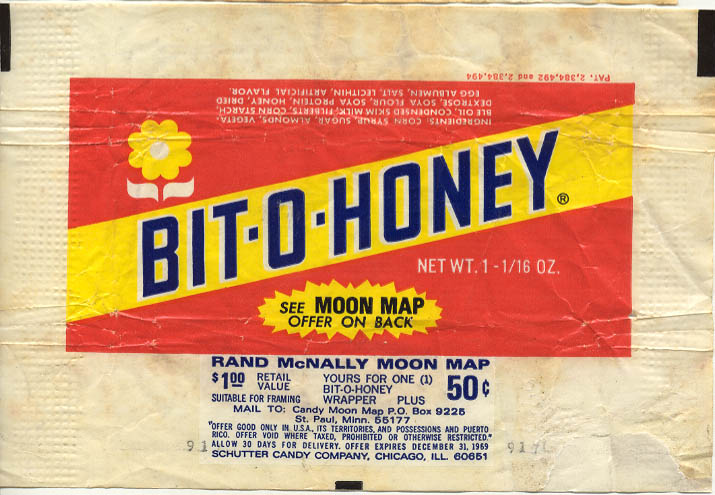 Bit-o-Honey circa 1969. Scanned from a wrapper. Bit-o-Honey circa 1969. Scanned from a wrapper.